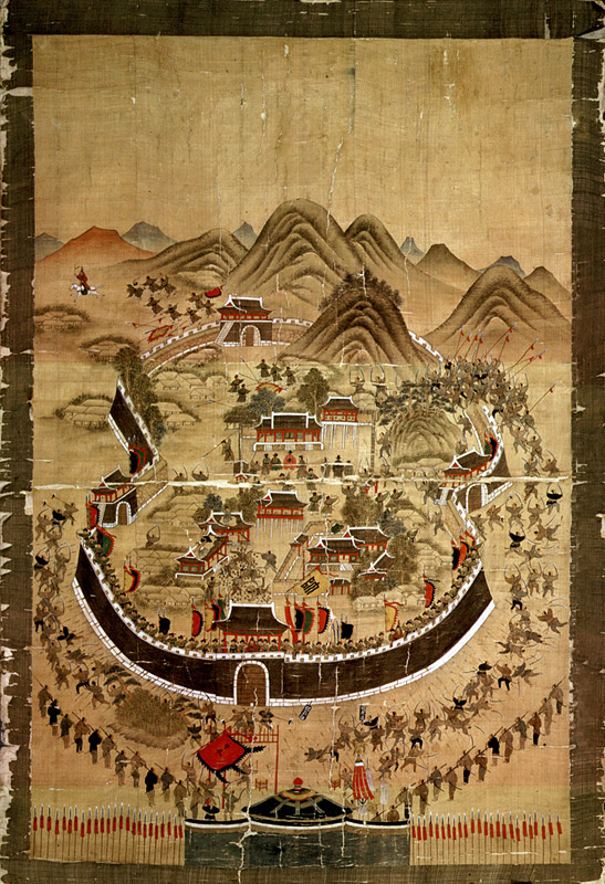 Dongnaebu painting of defense of Dongnae Fortress